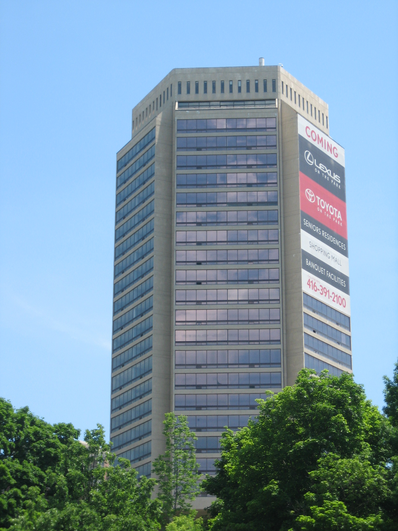 Inn on the Park